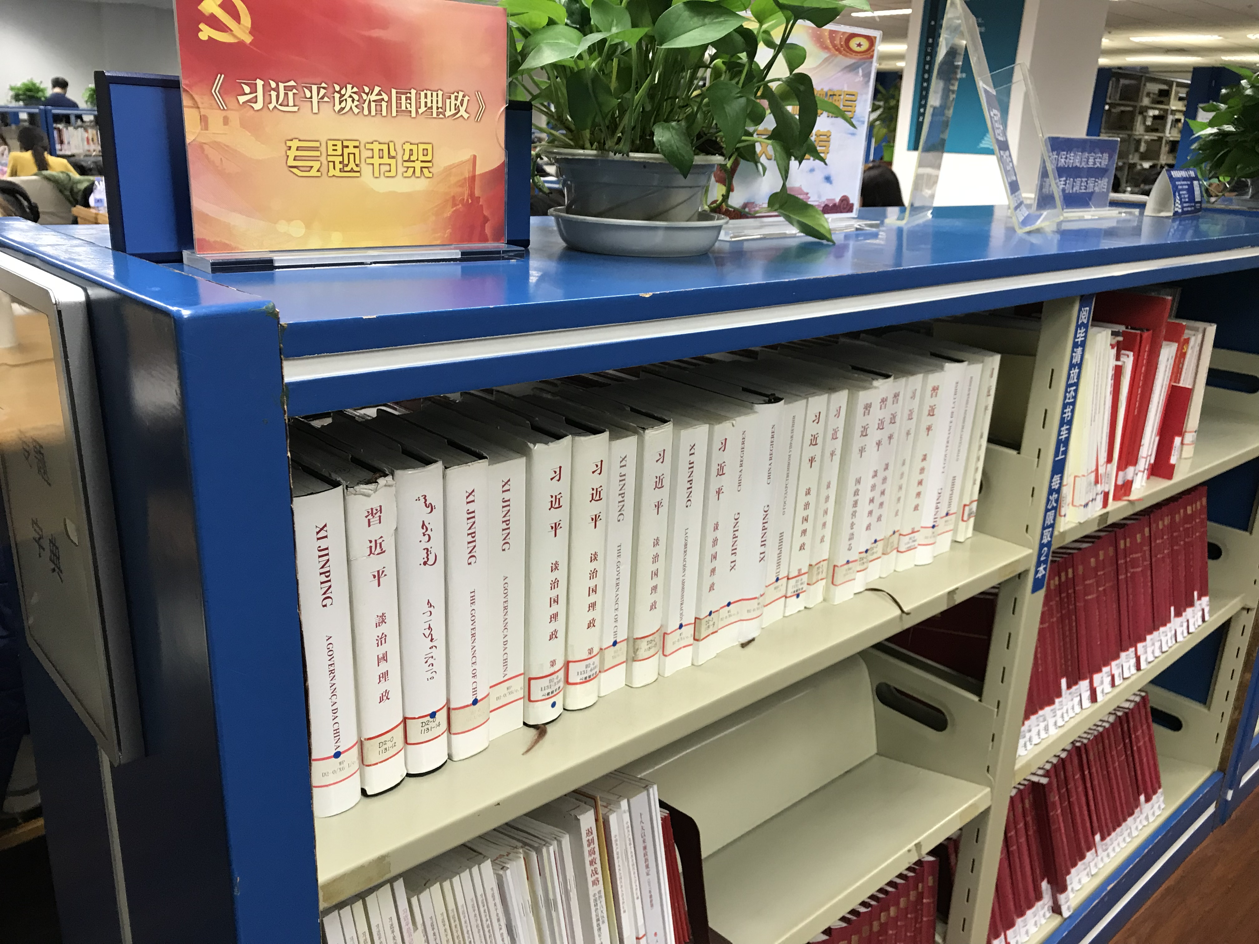 201901 Xi Jinping's books at Shanghai Library